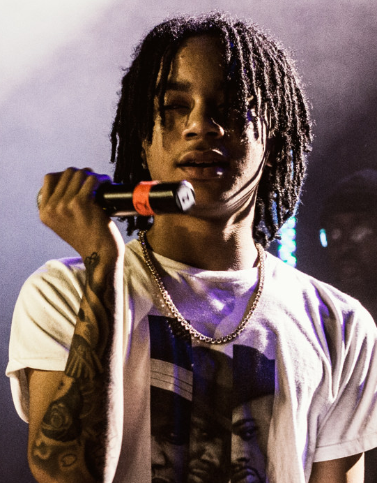 YBN Nahmir Live at the Mod Club